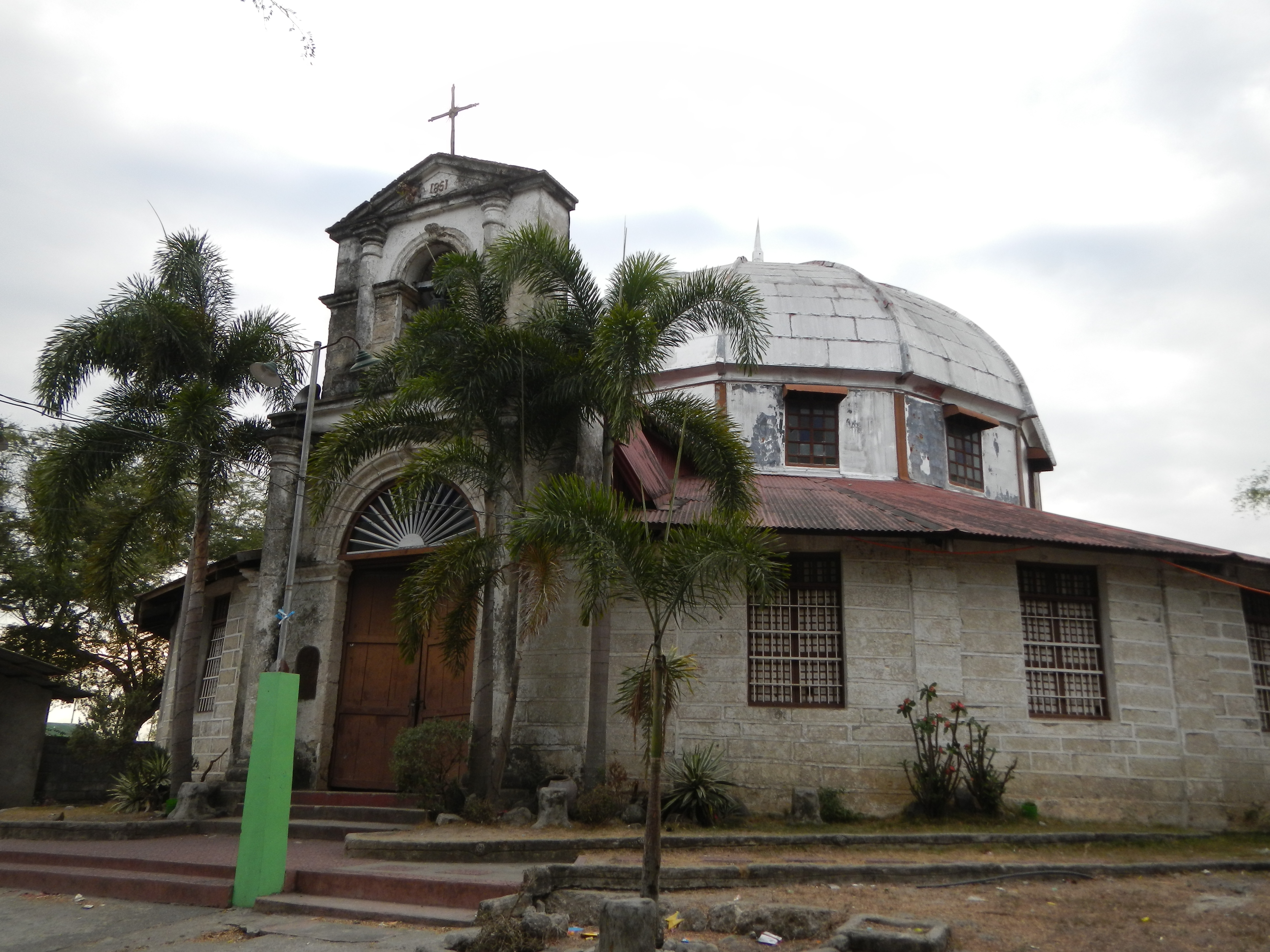 Pio Chapel - majestic façade of arches and Tuscan columns Barangay Pio, Porac, Pampanga [1] [2] (a circular chapel built during the Spanish colonial period, pre-dating the UP Chapel, the first circular church in the country by 145 years; Pampanga: Pio Chapel, heritage structures 1861 Hacienda chapel *238. THE GILS OF PORAC: Acting is All in the Family Don Felino Gil, and his wife Dona Eugenia Toledo founder of the first trade school of Asia the Escuela de Artes y Oficios de Bacolor, the oldest vocational school in Far East Asia, now known as Don Honorio Ventura Technological State University; He married Carlota Aguilar, and his great-great grandson is Carlos Gil, Rosemarie Gil’s father).